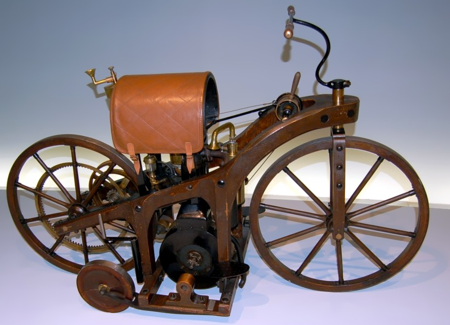 According to the information at the museum, this was the first motorcycle. Love those wooden wheels!